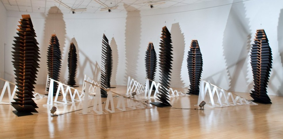 Installation Camaïeu d’ombres from artist Joëlle Morosoli